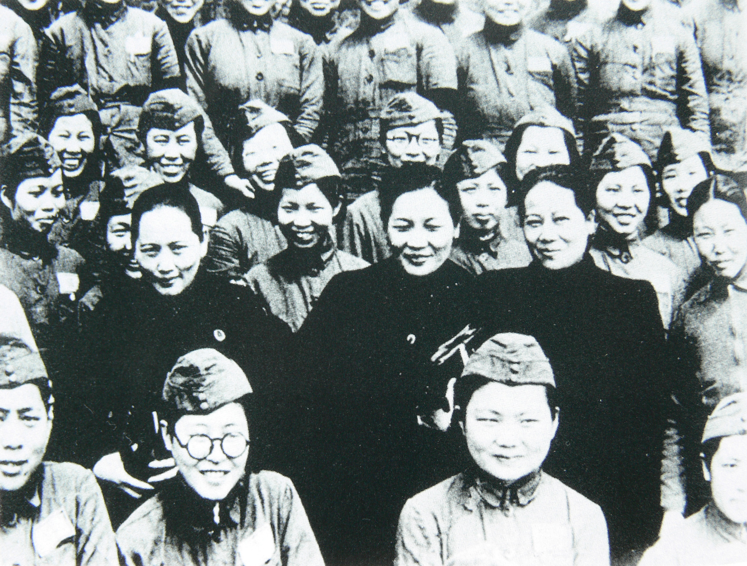 Ailing, Meiling and Quingling Soong (in black) visiting Nationlist women soldiers